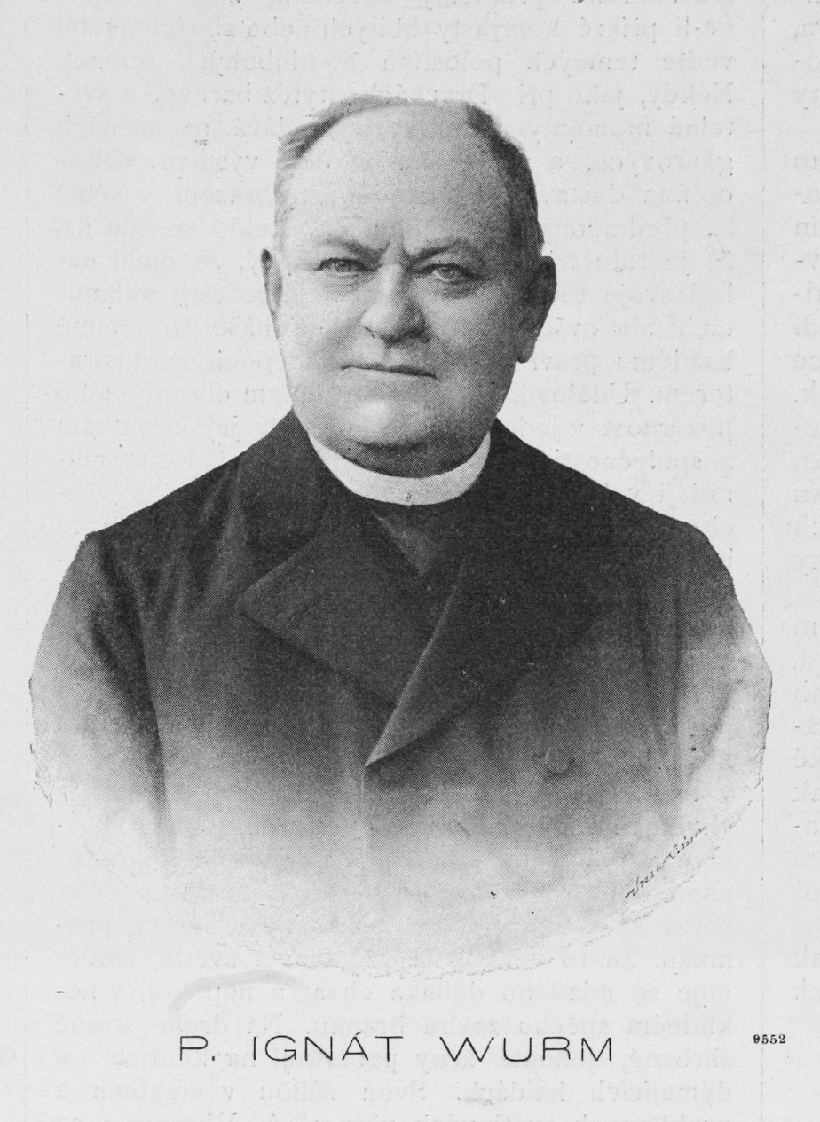 Portrait of Ignát Wurm (1825-1911), a Catholic priest from Moravia, ethnographist and politician.